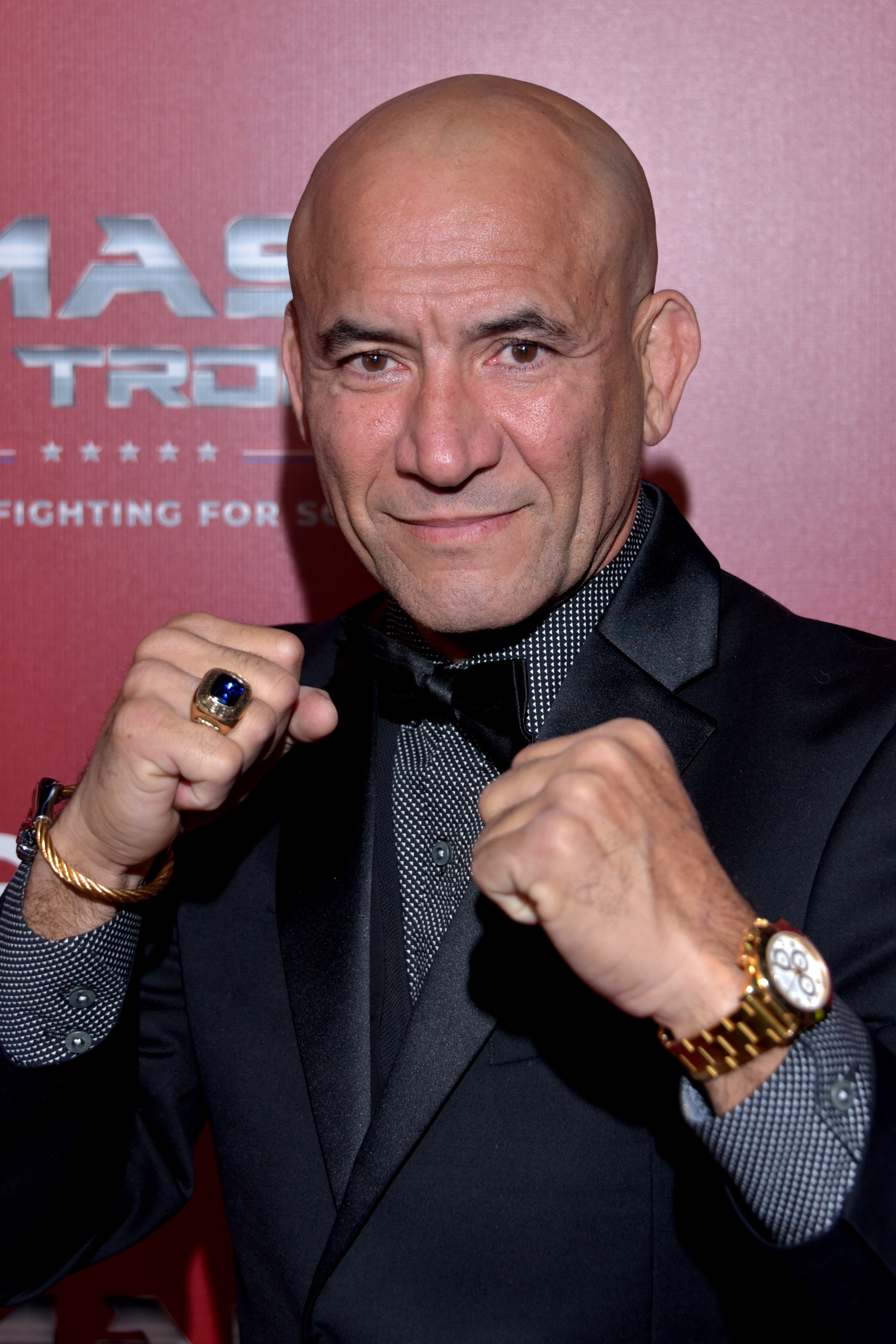 Fabiano Iha arrives for the SMASH GLOBAL IX Fight Night on December 19, 2019 in Hollywood California -Photo by Glenn Francis/